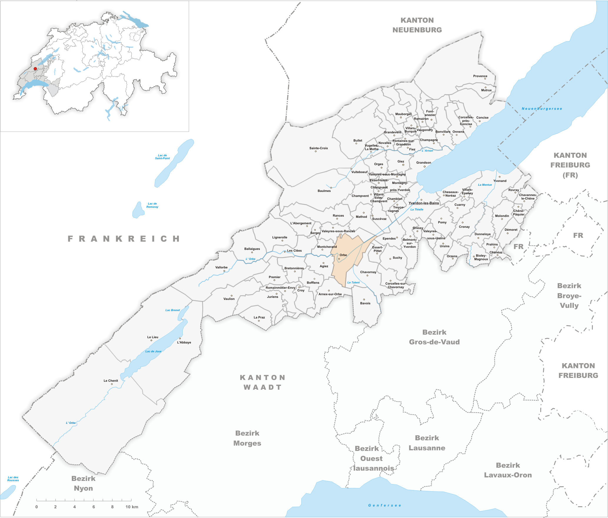 Municipality Orbe